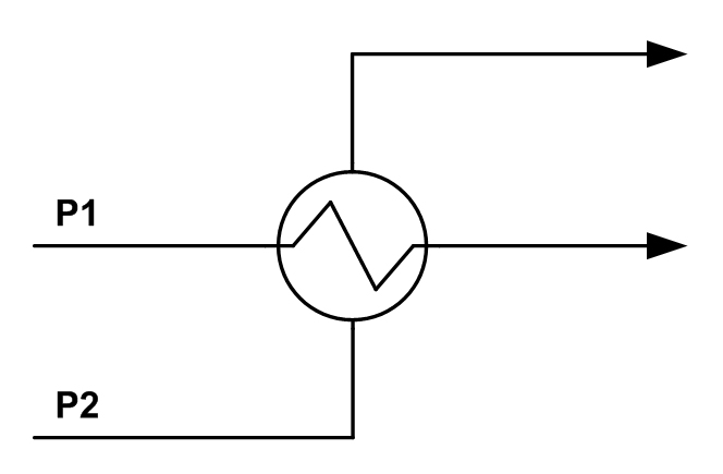 HEX without control